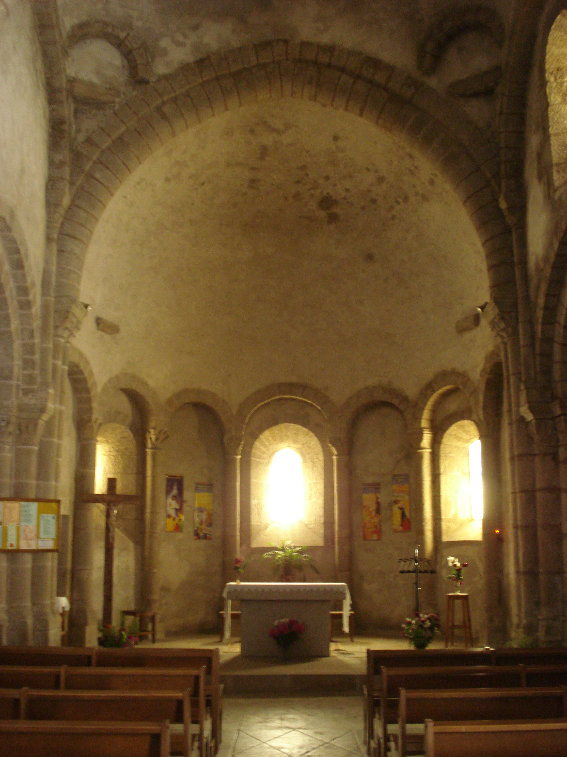 Prévenchères (Lozère, Fr) church interior.